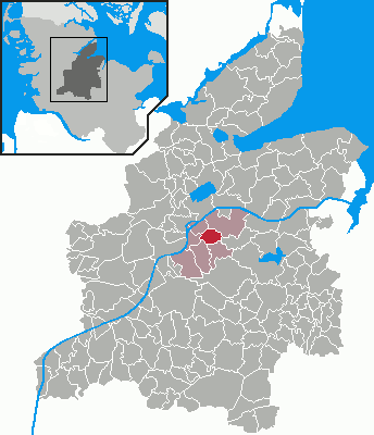 Locator maps of municipalities in Schleswig-Holstein - District Rendsburg-Eckernförde